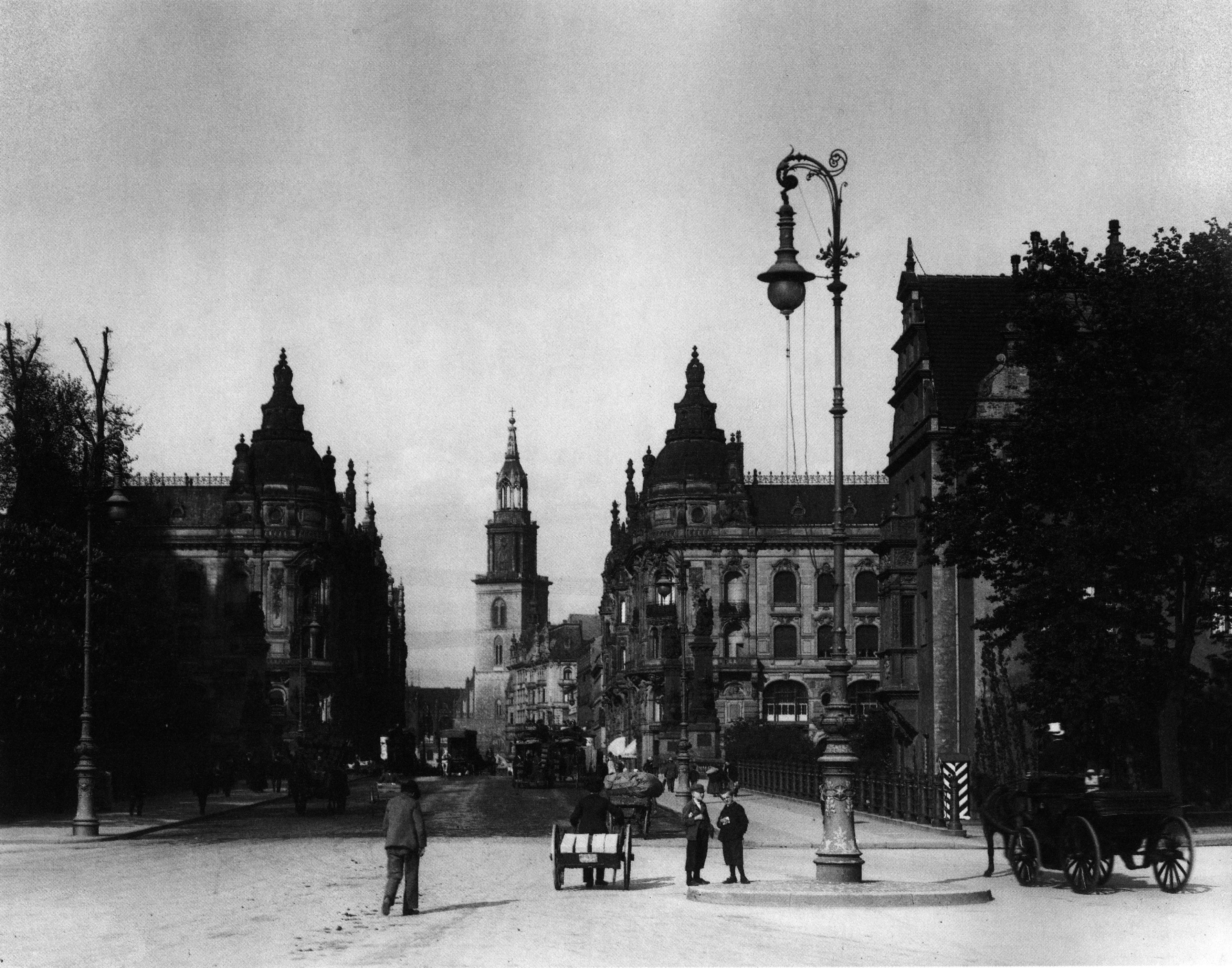 Kaiser-Wilhelm-Straße (now Karl-Liebknecht-Straße) looking north at Kaiser-Wilhelm-Brücke (Liebknechtbrücke) crossing River Spree. Visible in the background is St. Mary's Church.